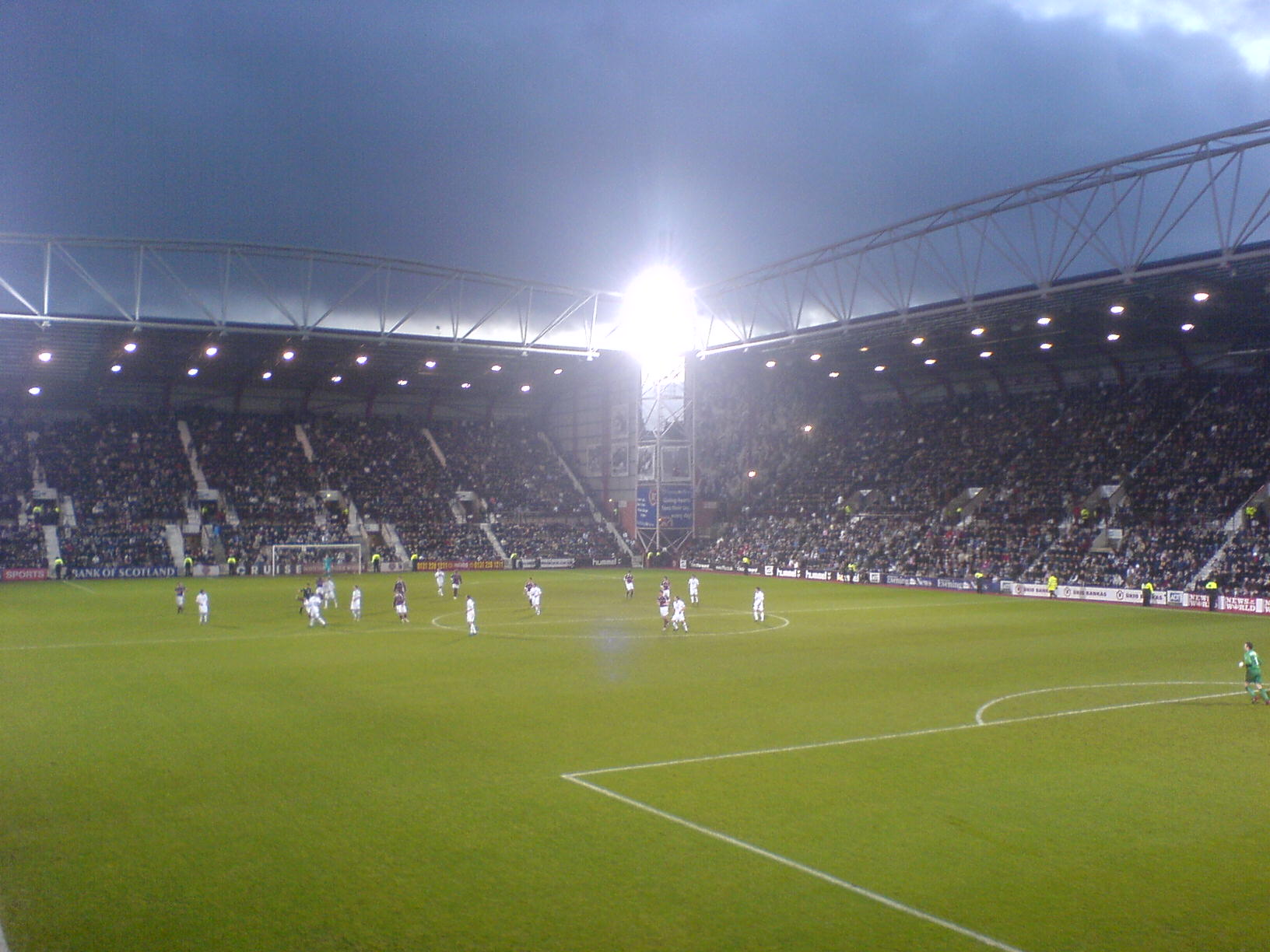 Photo taken in Edinburgh on December 16th, 2006.